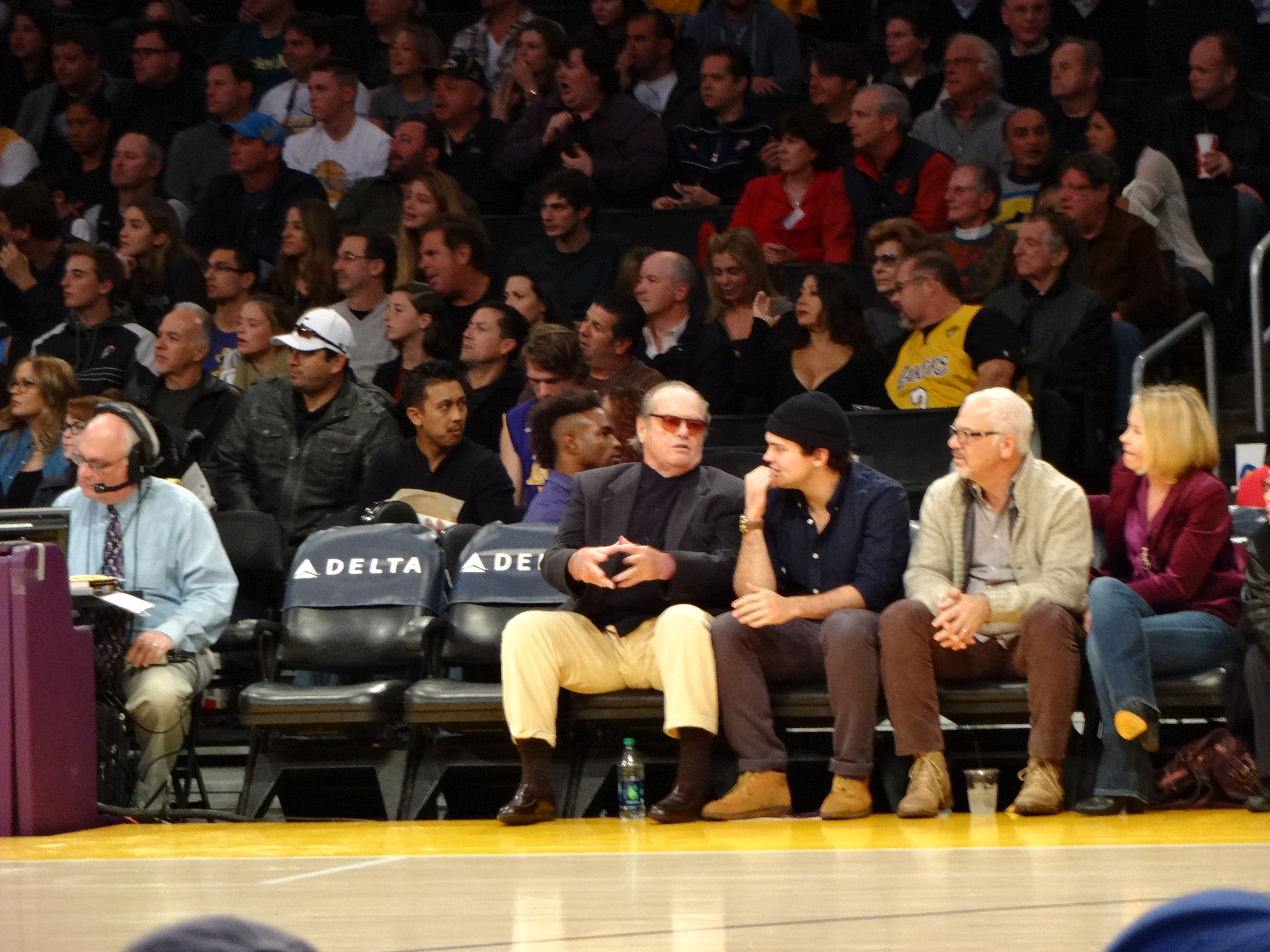 Los Angeles Lakers vs Denver Nuggets at the Staples Center. Jack Nicholson in his courtside seat.